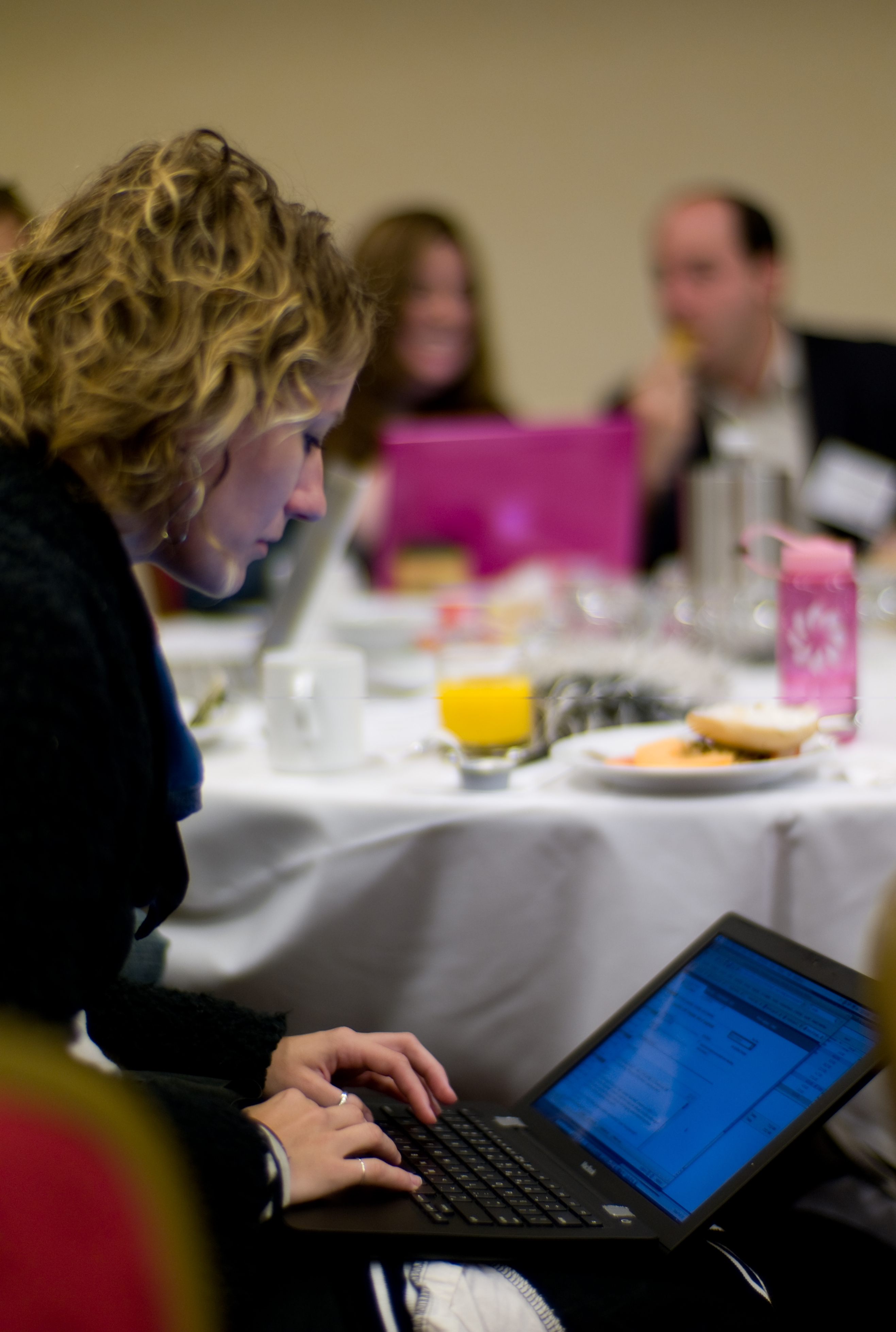 danah boyd